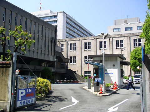 Imabashi Parking, (former Aijitsu Elementary School), Chuou-ku, Osaka City, Japan